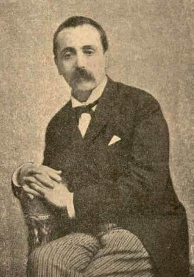 Giovanni Battista Valle (1843-1905), Italian painter and chess composer from La Spezia.